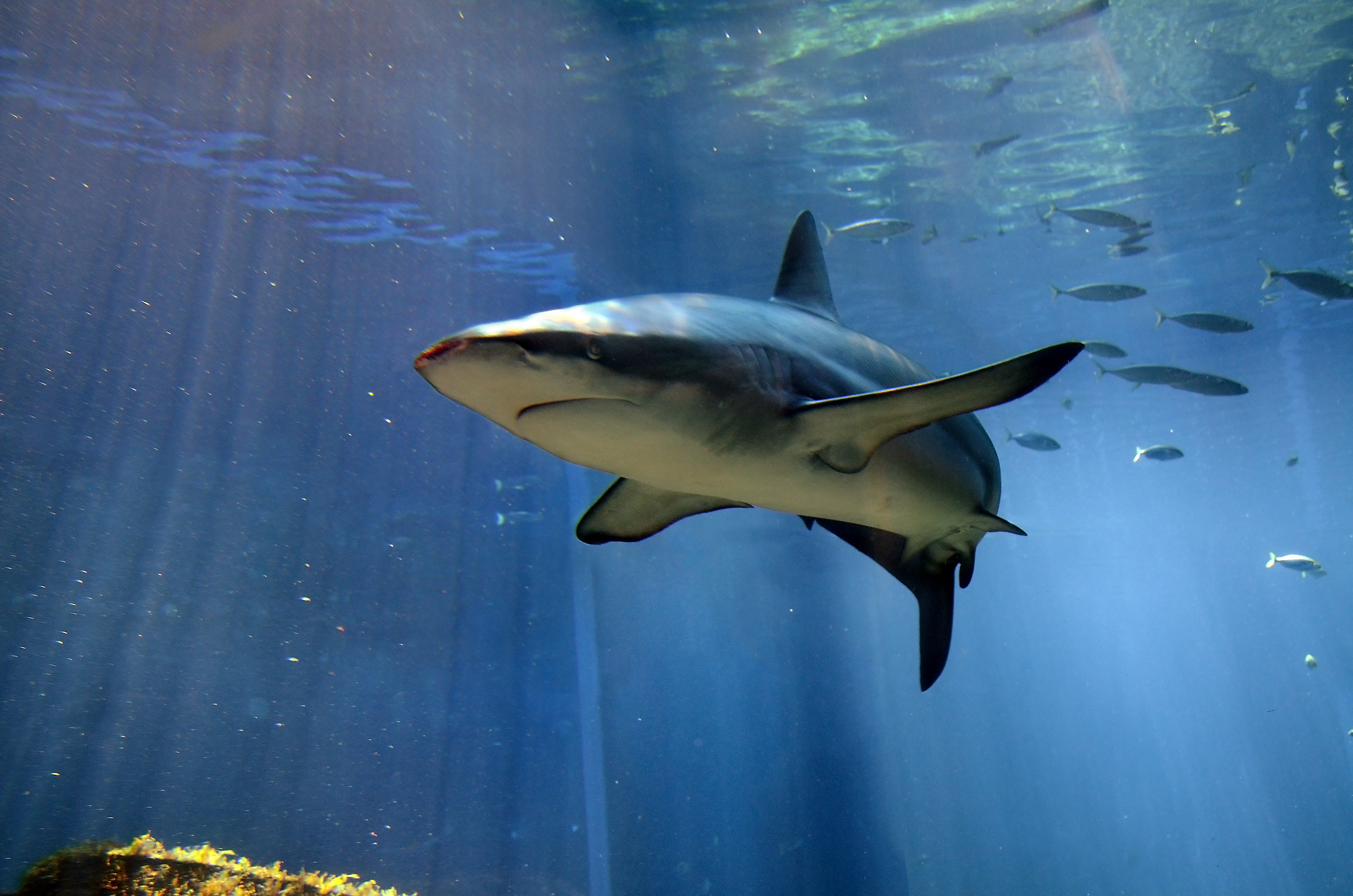 Dusky shark (Carcharhinus obscurus) in UShaka Sea World